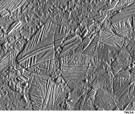 Image of Europa's Conamara Chaos taken by the Galileo spacecraft. This view is approximately 35 kilometers across.